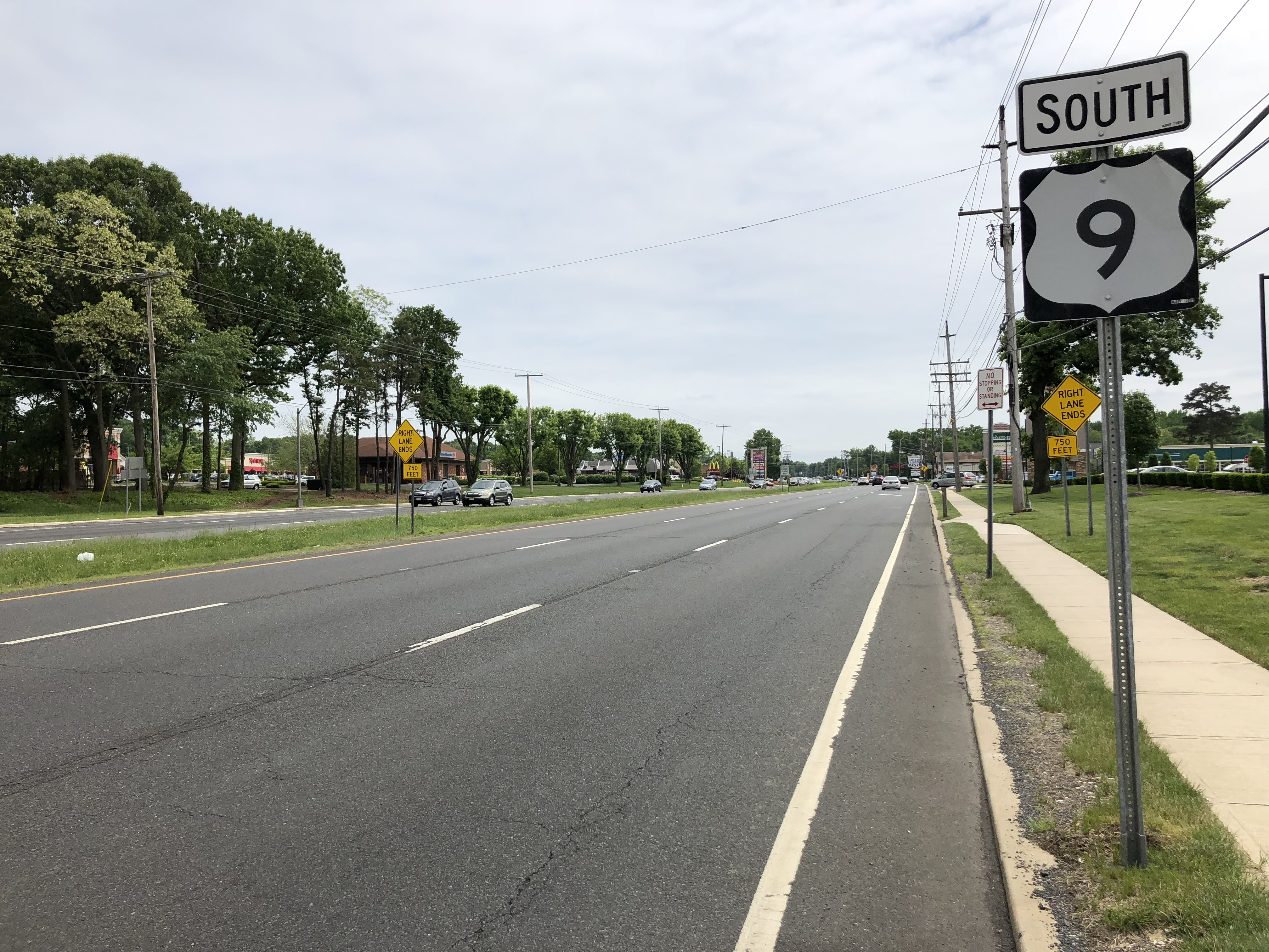 View south along U.S. Route 9 at Middlesex County Route 520 (Robertsville Road/Newman Springs Road) in Marlboro Township, Monmouth County, New Jersey